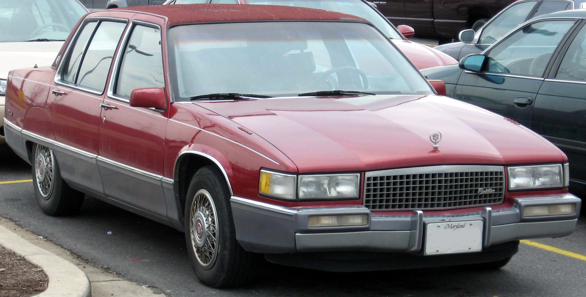 1989-1992 Cadillac Fleetwood photographed in USA.